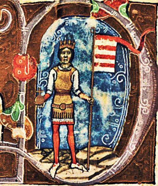 Béla III of Hungary